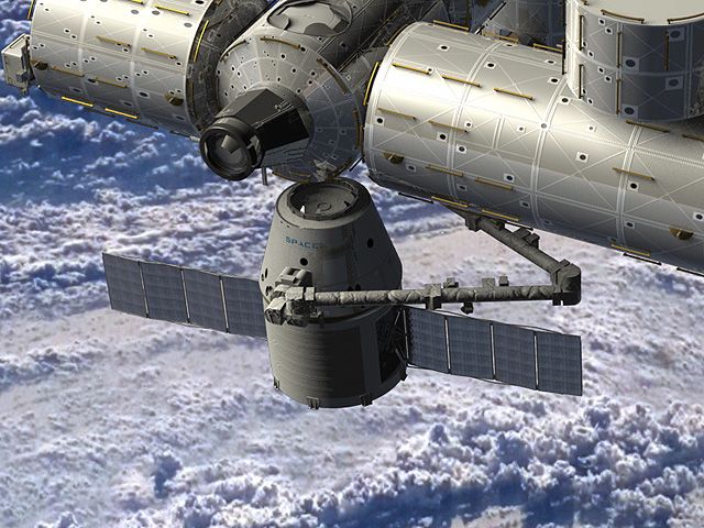 Artist rendering of SpaceX Dragon spacecraft being berthed to nadir Common Berthing Mechanism on the Harmony module. Credit NASA